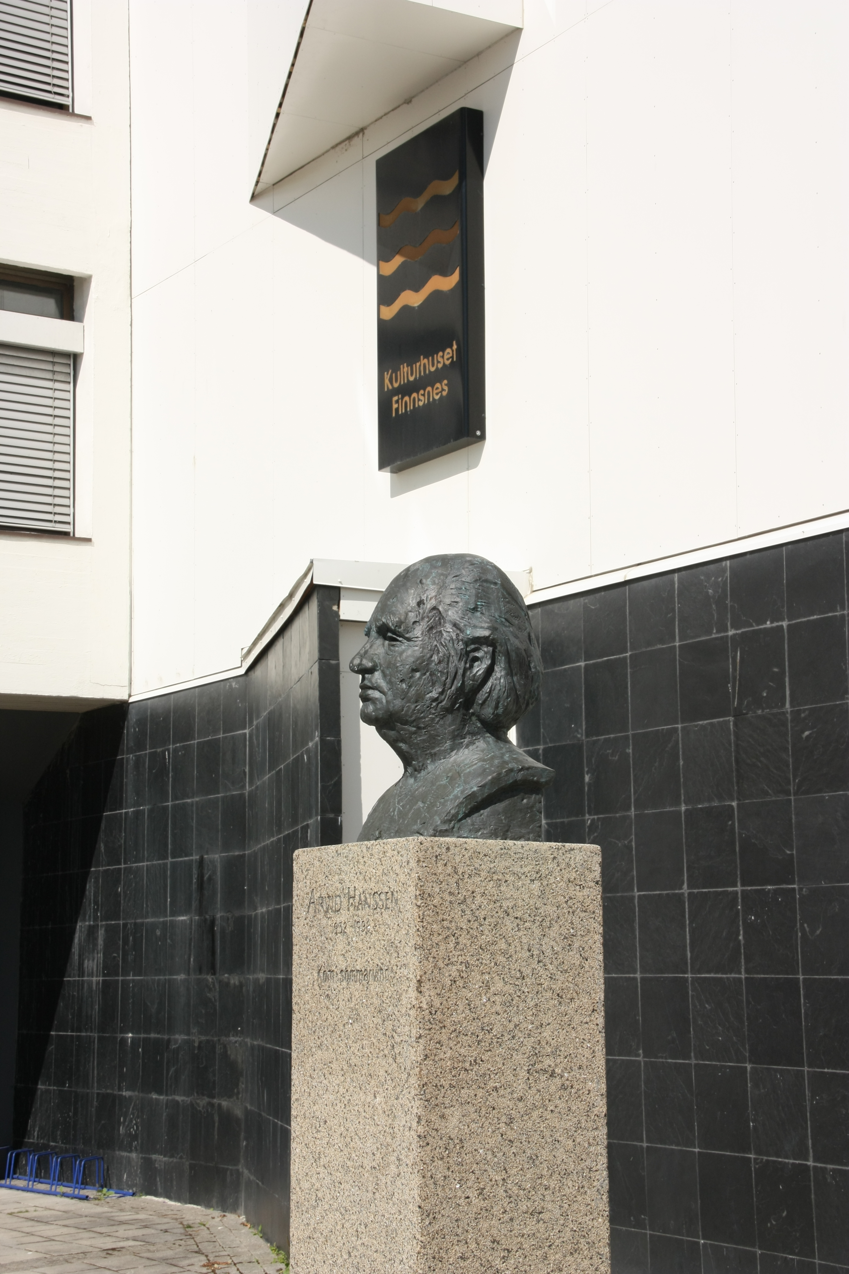 Bust of the writer Arvid Hanssen on Arvid Hanssens plass, Finnsnes, Norway.